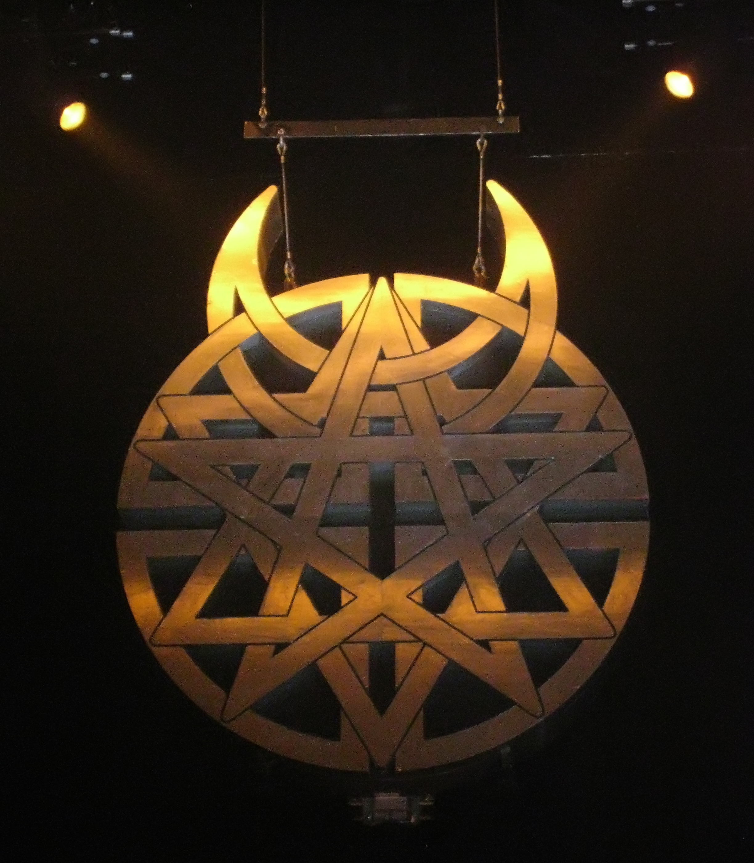 Disturbed logo used during live concerts.